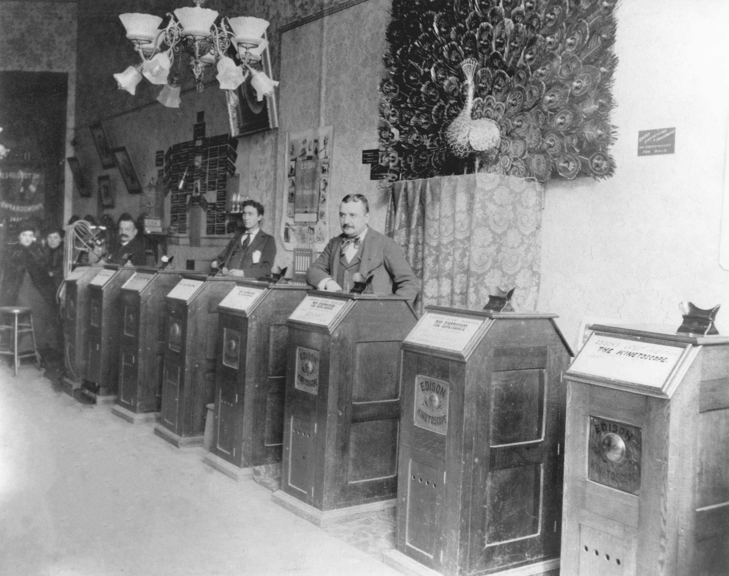 Publicity or news photograph of San Francisco Kinetoscope parlor, ca. 1894–95